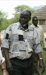 John Garang (1945–2005), 11th First Vice President of Sudan and President of Southern Sudan. Image cropped; full photo includes Garang with Bill Frist.